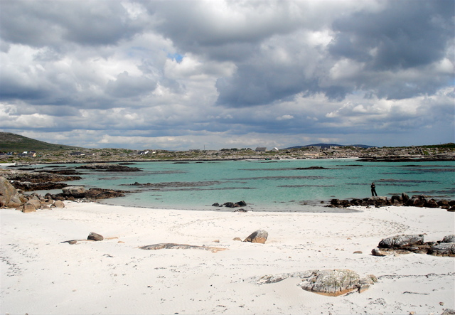 This area is situated near the small quiet Gaeltacht Village of Carna on the west coast of Connemara. Driving on the narrow R340, just take each single way you get on the side and you will be in the middle of such beautiful beaches.